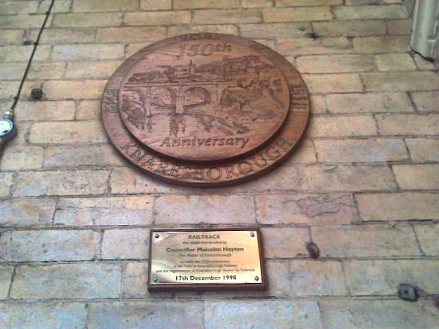 Plaque commemorating the 150th anniversary of the extension of the railway from York to Knaresborough. Knaresborough railway station, former main entrance.